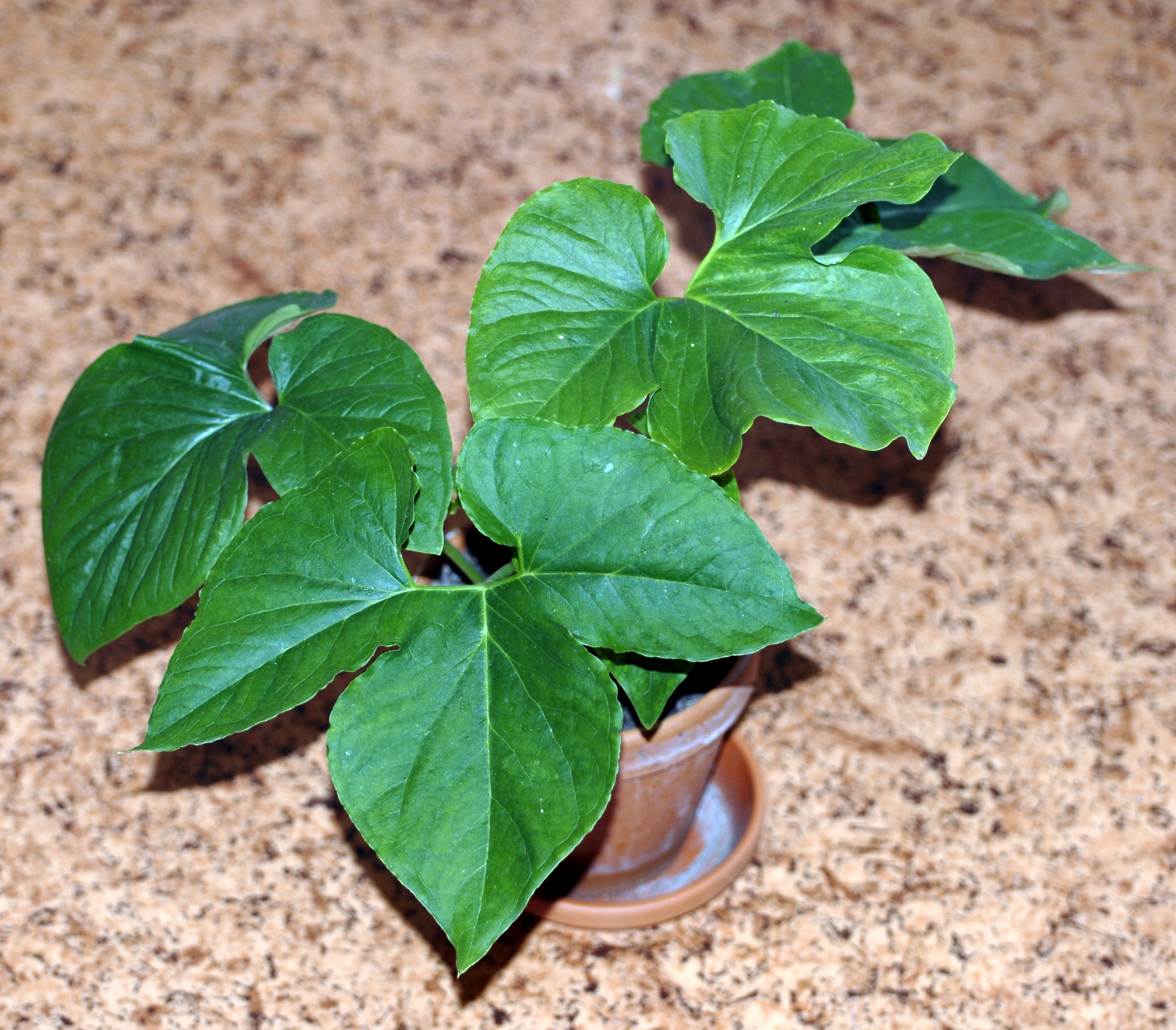 Typhonium varians in cultivation